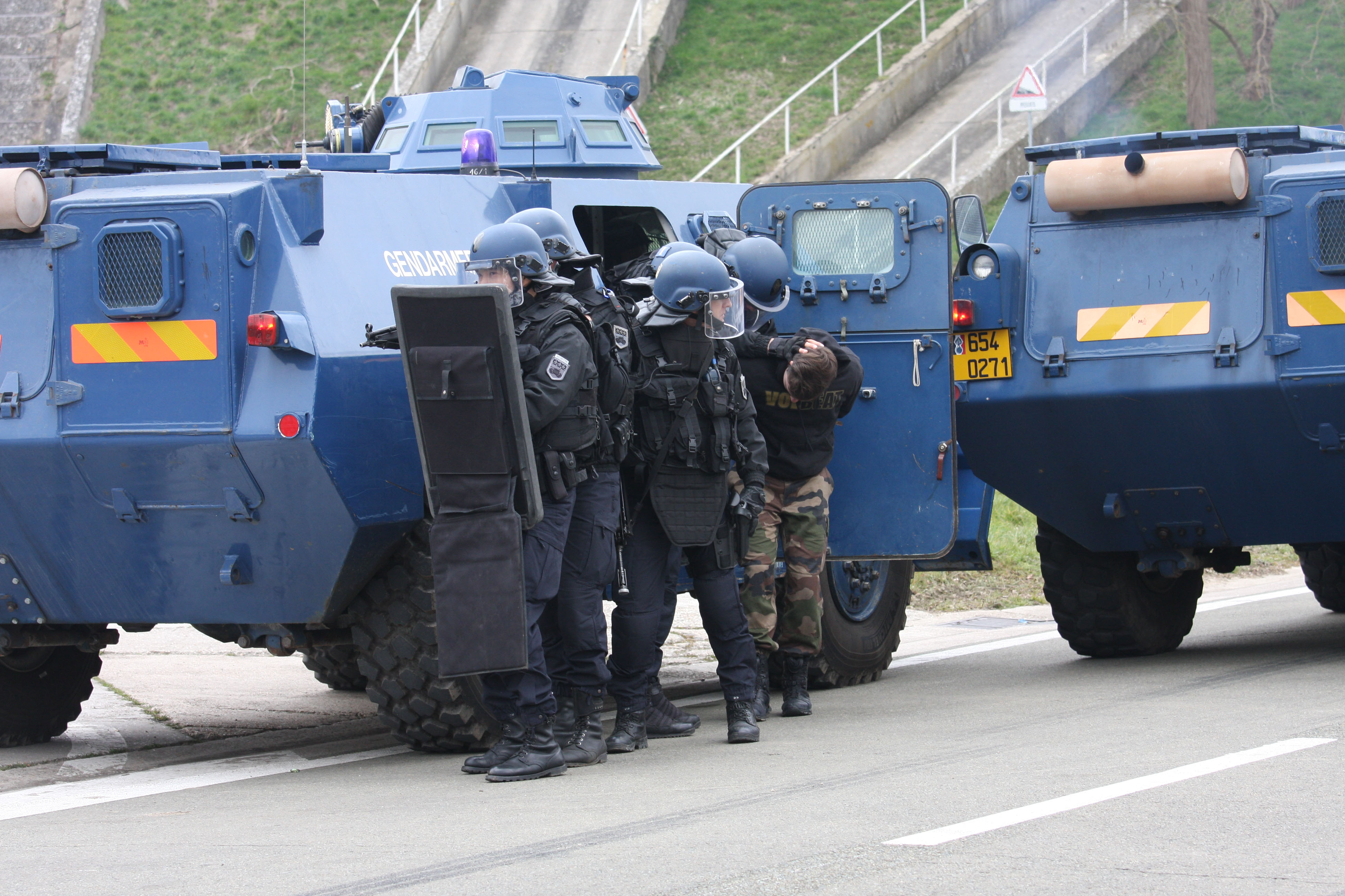 French Mobile Gendarmerie GBGM "Intervention" platoon (peloton d'intervention) practicing arrest of a suspect.